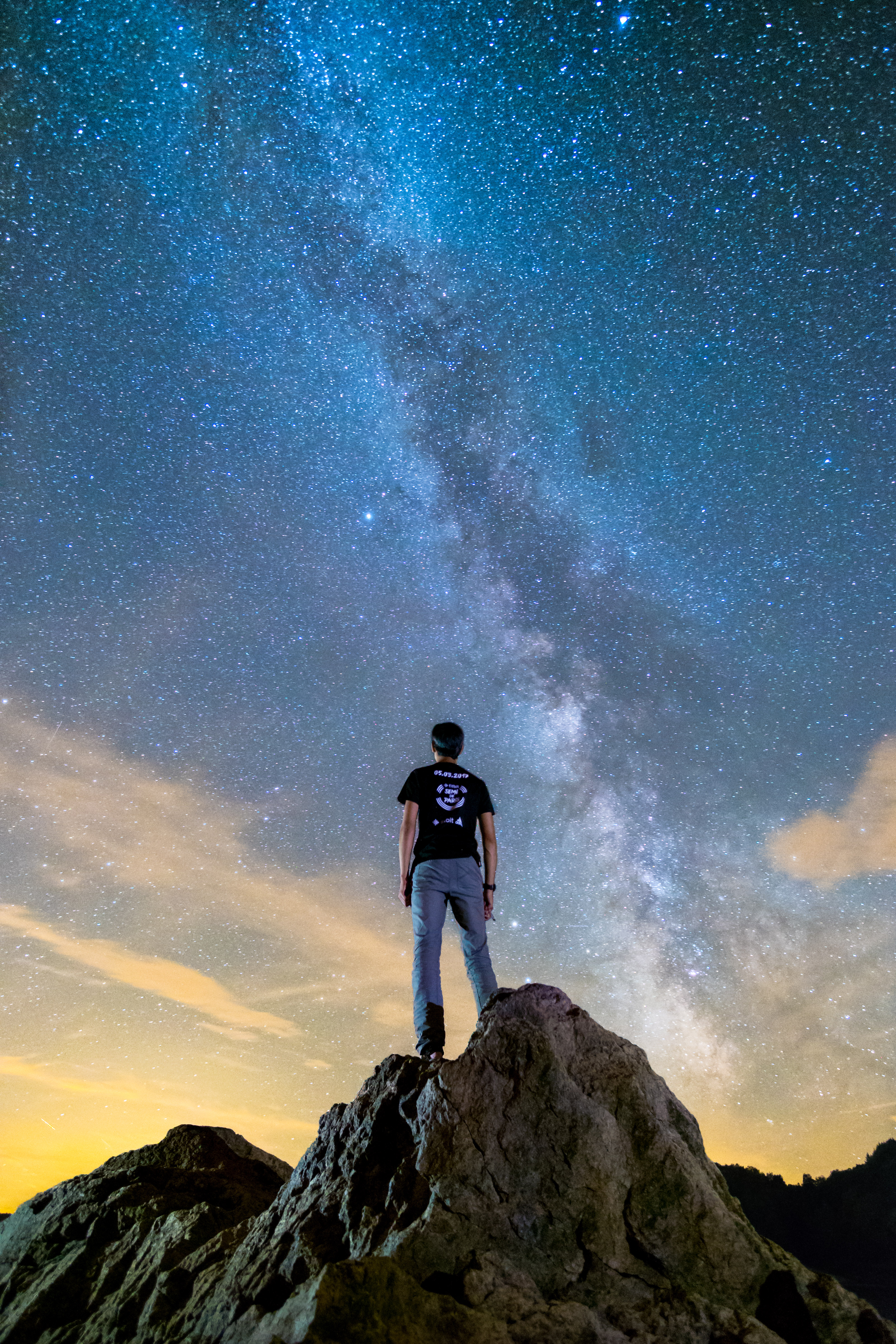 Gazing at the milky way at the Pannecière lake, in the Morvan National Park, France. Taken at the very end of August 2019, when Saturn was in opposition and hence very bright (next to my right hand). Although generally speaking, Morvan, maybe the darkest place in France, has little light pollution, this picture shows a lot of it because of the small village of Château-Chinon and because of the very long exposition.